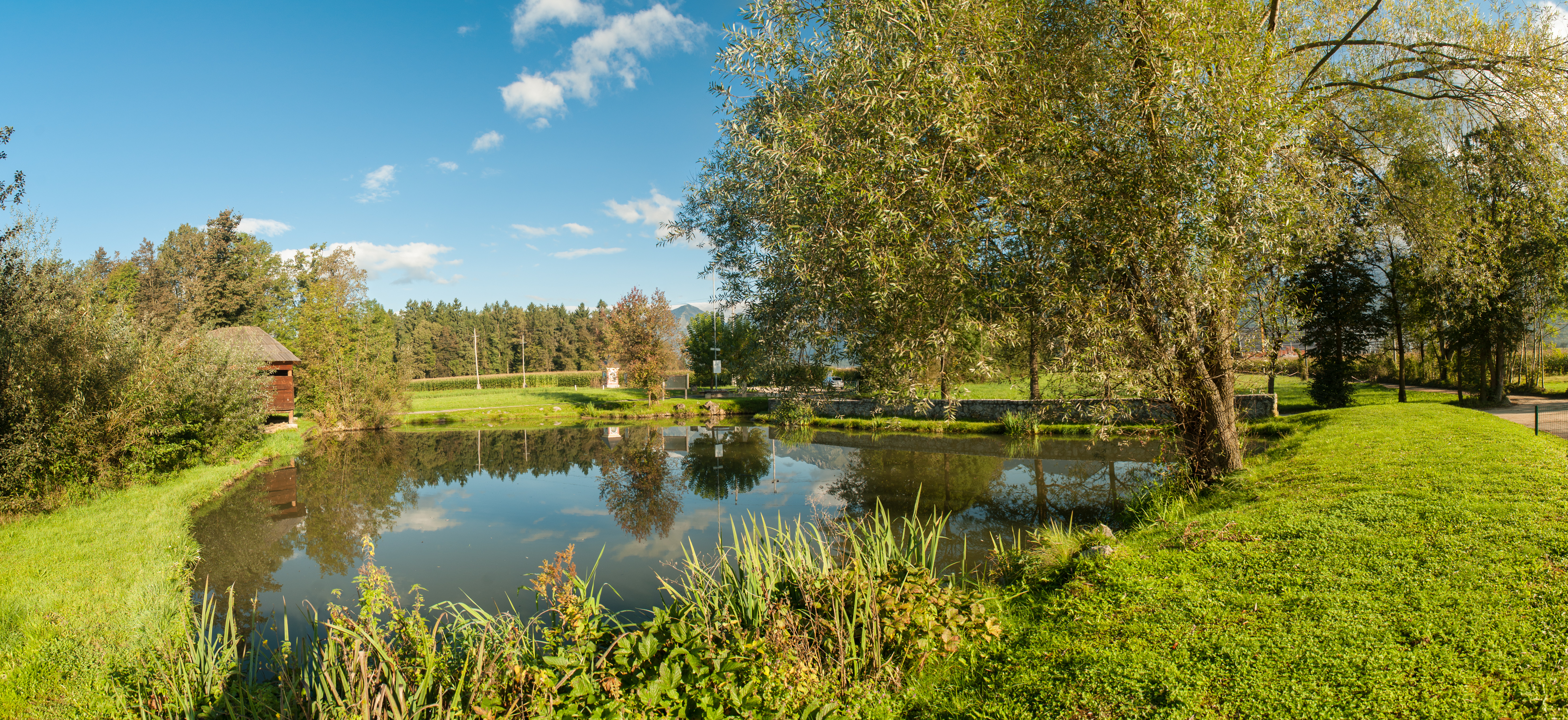 Pond in Srednja vas near ŠenčurSlovenščina: Bajer v Srednji vasi pri Šenčurju